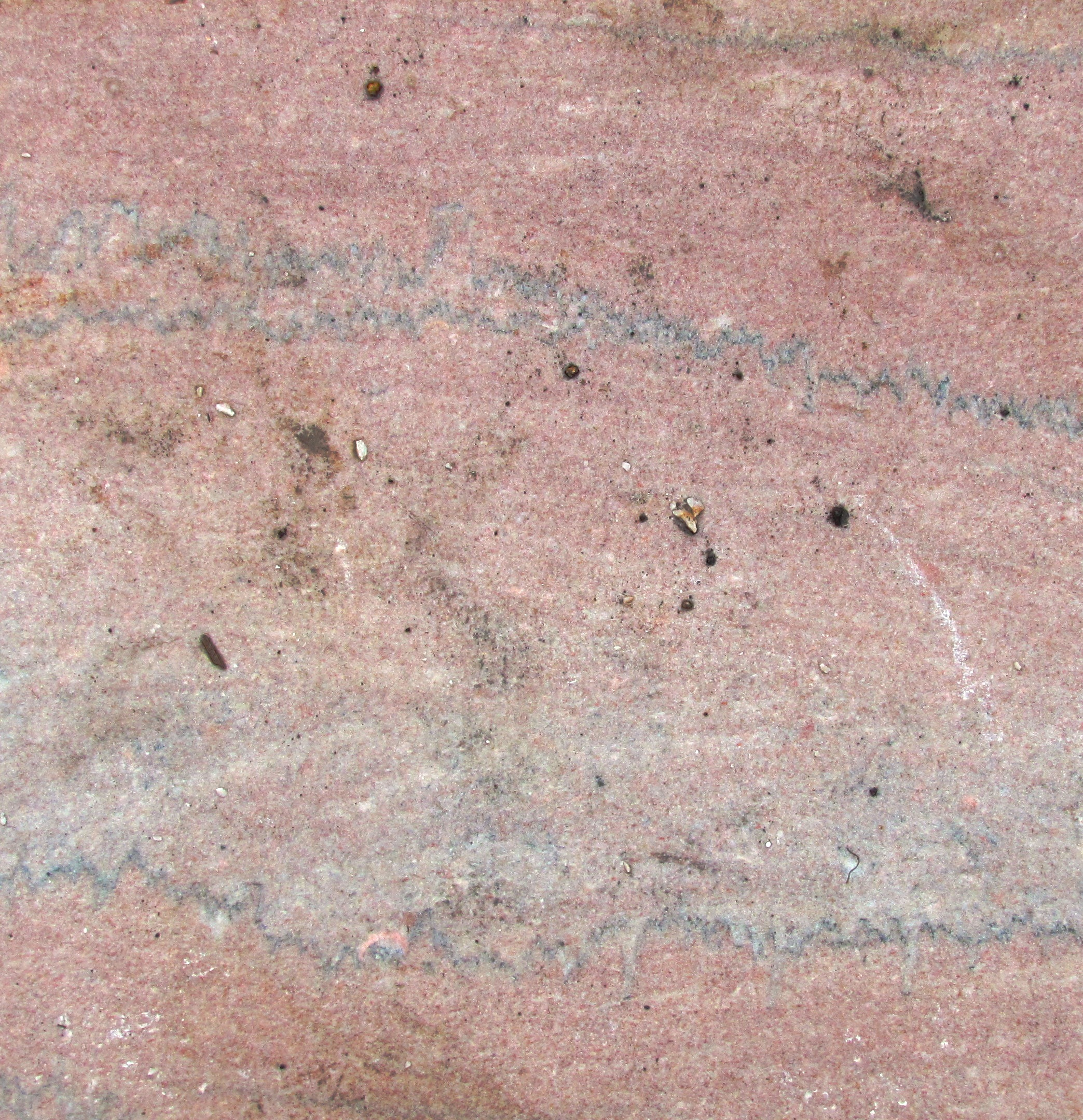 Close-up of the surface of a finished Tennessee marble block at the Ross Marble Quarry section of the Ijams Nature Center in Knoxville, Tennessee, USA.